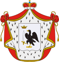 Coat of Arms of family Lyapunow